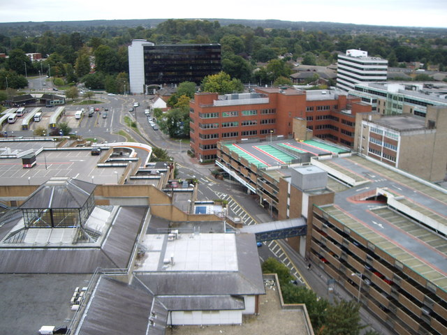 View towards Bracknell Station from Ocean House